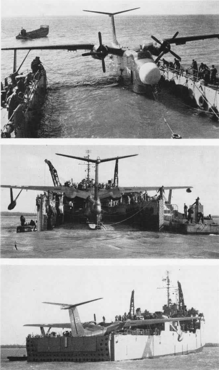 A U.S. Navy Martin P5M-2 Marlin of Patrol Squadron VP-56 "Dragons" is hauled aboard the amphibious transport dock ship USS Ashland (LSD-1) in Chesapeake Bay (USA). On 1 November 1956, Ashland had been transferred to the control of Commander, Naval Air Forces, Atlantic, for alterations enabling the ship to tend aircraft. By July 1957, she was configured to handle six P5M-2 aircraft. The ship deployed to the Caribbean from 1 August to mid-September. At the conclusion of this assignment, the dock landing ship was decommissioned on 14 September 1957.